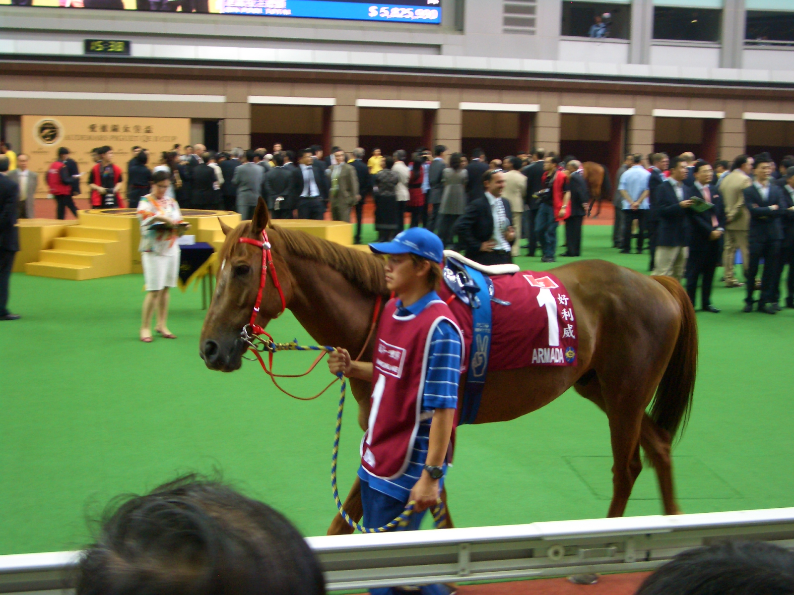 Armada, a thoroughbred racehorse trained in Hong Kong. Runners-up of 2008 Champion Mile